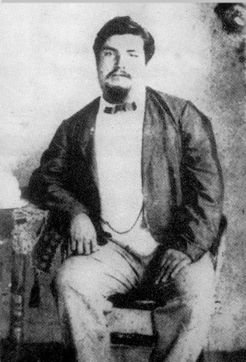 The only known photograph of William Henry aka Bully Hayes